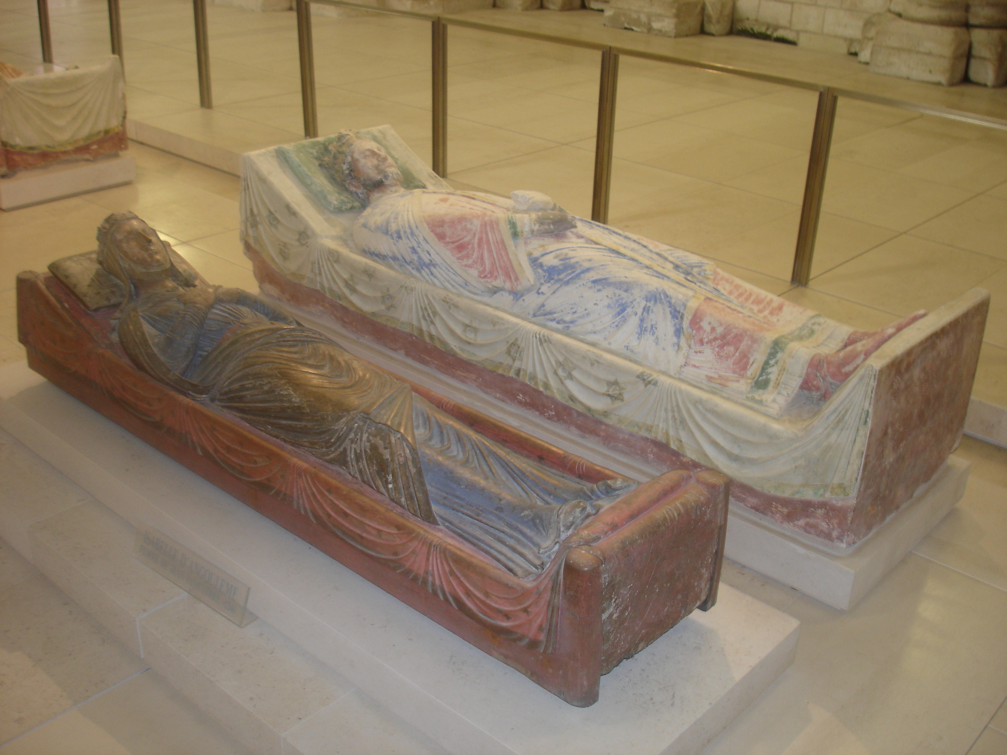 Fontevraud Abbey, tombs of Richard I of England and Isabella of Angoulême